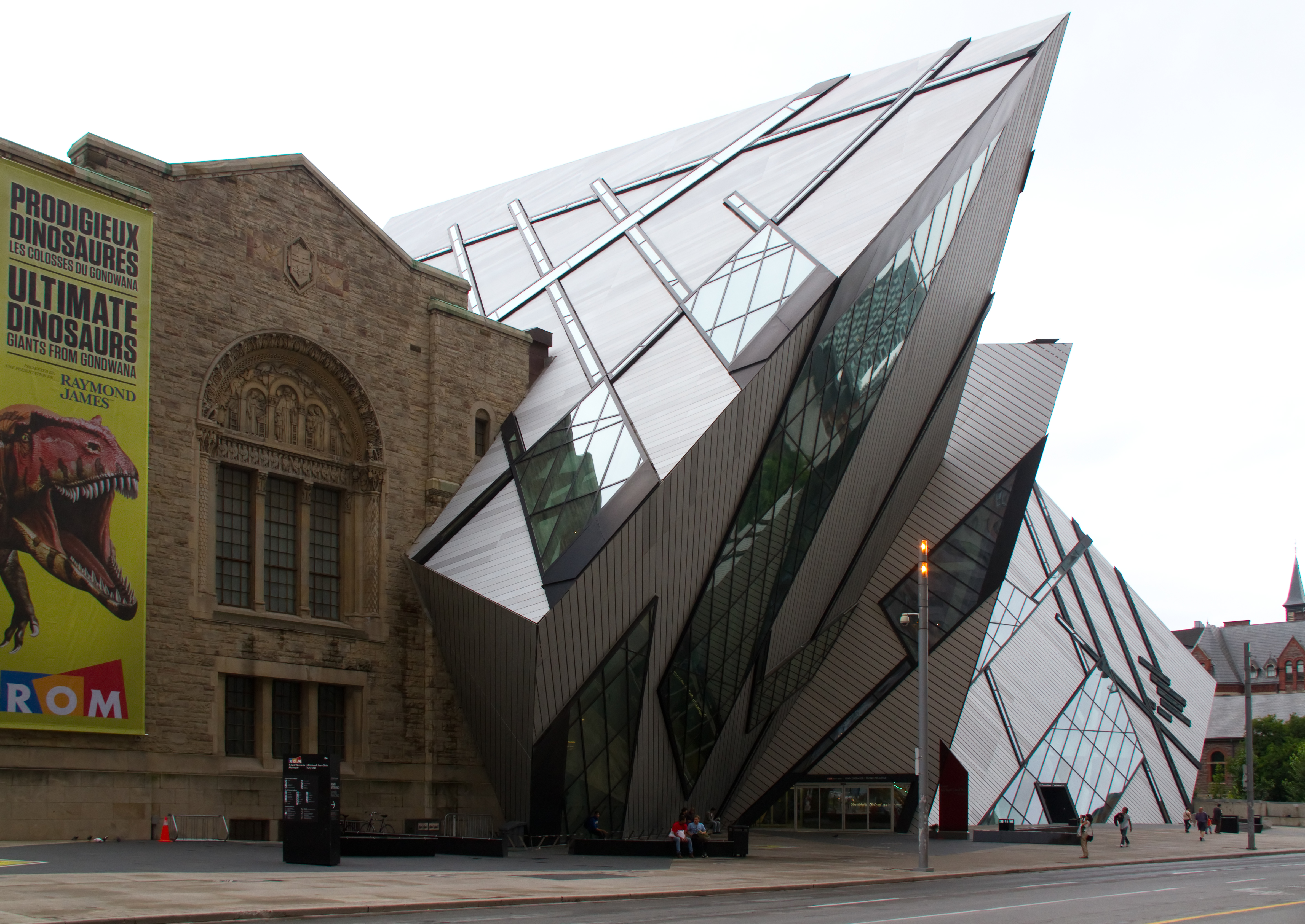 Royal Ontario Museum 1.